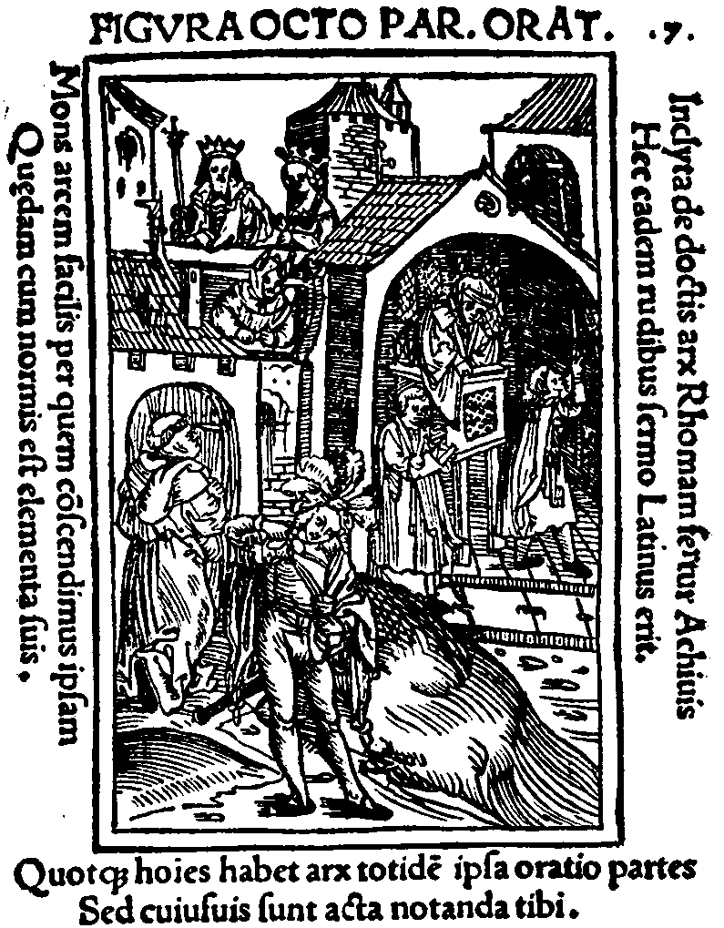 Première gravure de la "Grammatica Figurata" de Matthias Ringmann